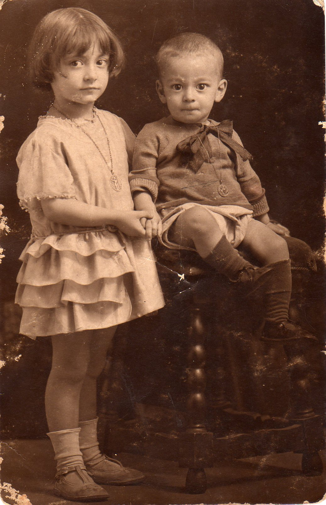 Maria Aurèlia Capmany i Farnés (3 years old) and Jordi Capmany i Farnés (1 year old), brothers, on July 1922.